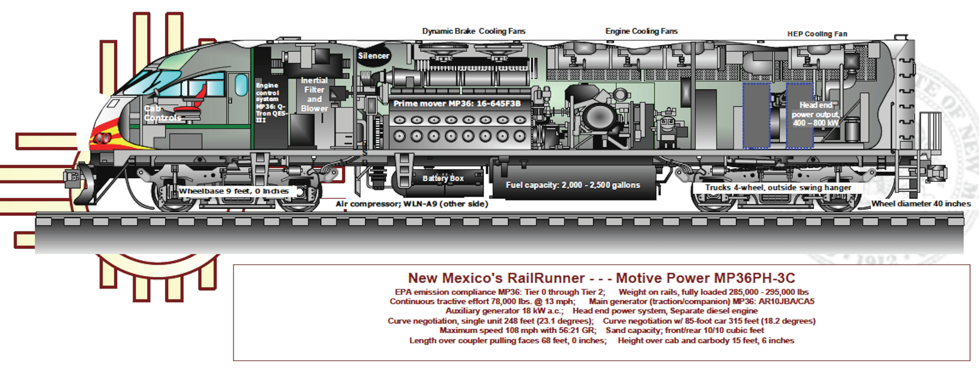 This is a port side profile cutaway to present the internal components of this Motive Power (Wabtec) Locomotive